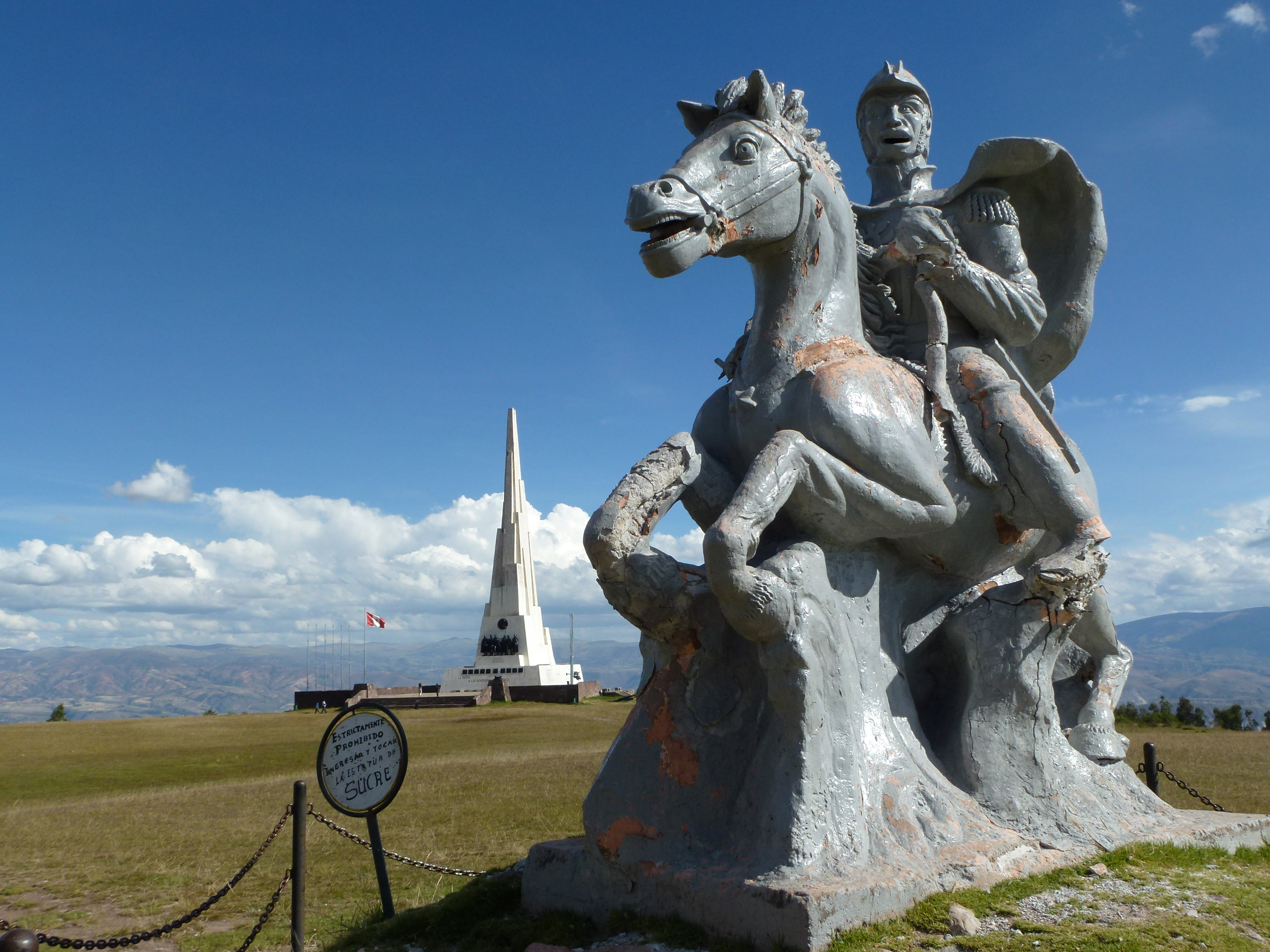 Statue of independence hero José Antonio de Sucre in near Quinua, Ayacucho, Peru